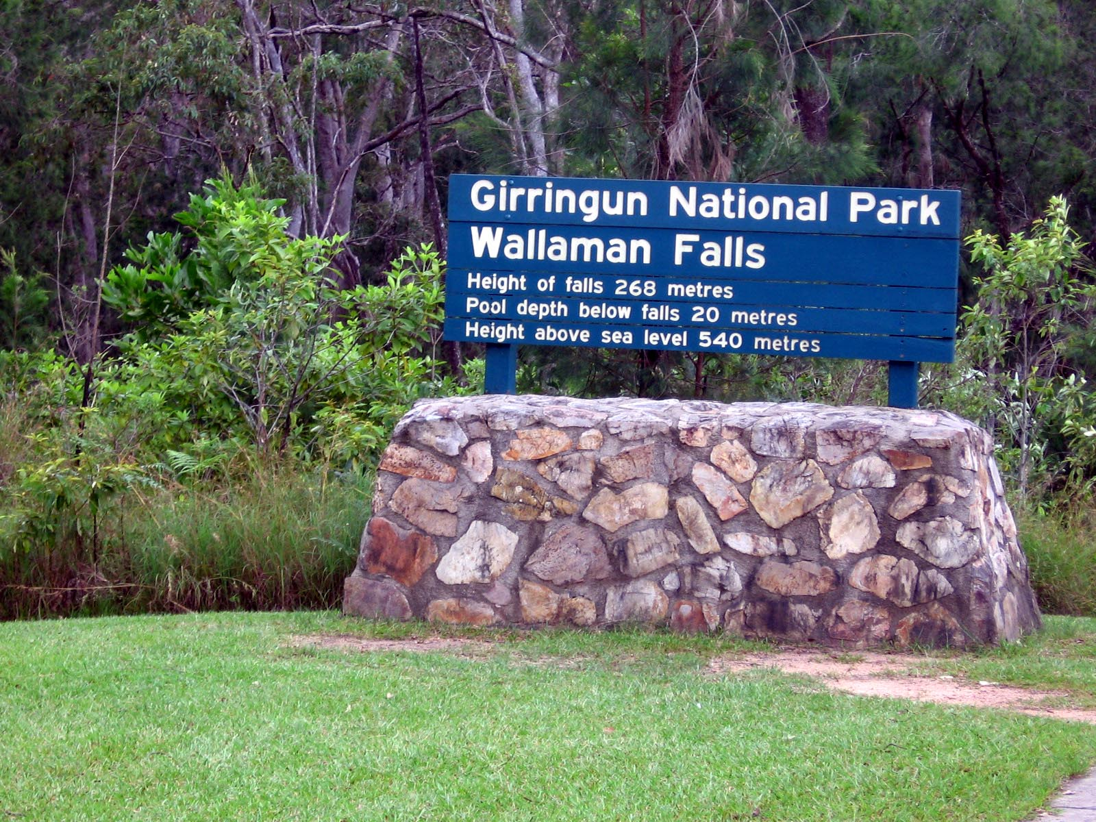 tallest fall in AU